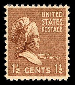 1938 u.s. postage stamp of Martha Washington